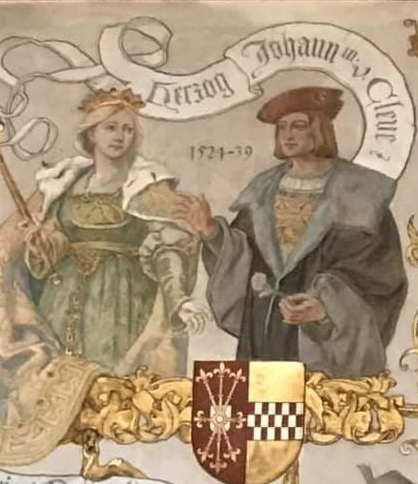 Maria of Julich-Berg and her husband, John III, Duke of Cleves at Castle Burg in Solingen, Germany.